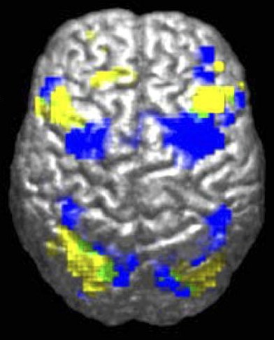 fMRI-derived image of difference between brains of autistic and control groups. Legend reads "Activation during visuomotor coordination: Autism Group [yellow], Control Group [Blue], Overlap (both groups) [green]". for Laurent Mottron*, "Even researchers who study autism can display a negative bias against people with the condition. For instance, researchers performing functional magnetic resonance imaging (fMRI) scans systematically report changes in the activation of some brain regions as deficits in the autistic group — rather than evidence simply of their alternative, yet sometimes successful, brain organization".* Laurent Mottron, Changing perceptions: The power of autism ; Nature 479, 33–35 (03 November 2011) ; En ligne : 2011-11-02